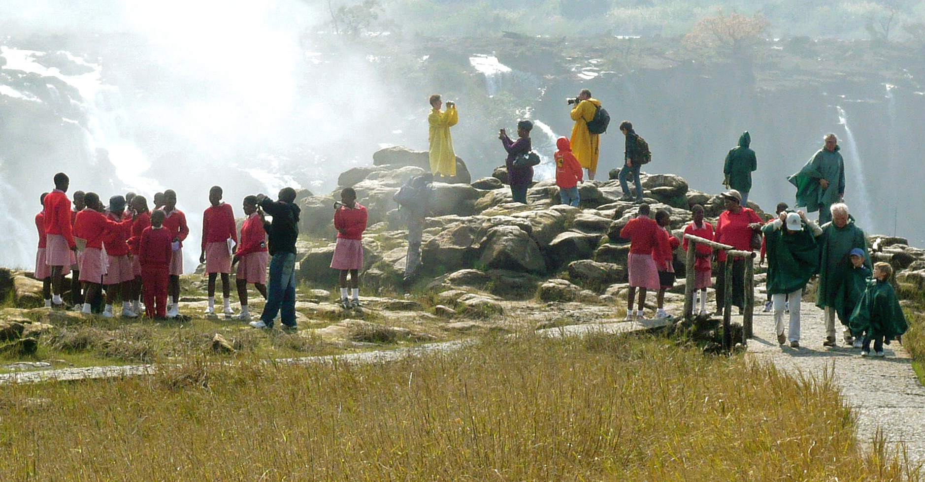 Foreign tourists and local students at Victoria Falls (Zimbabwe)